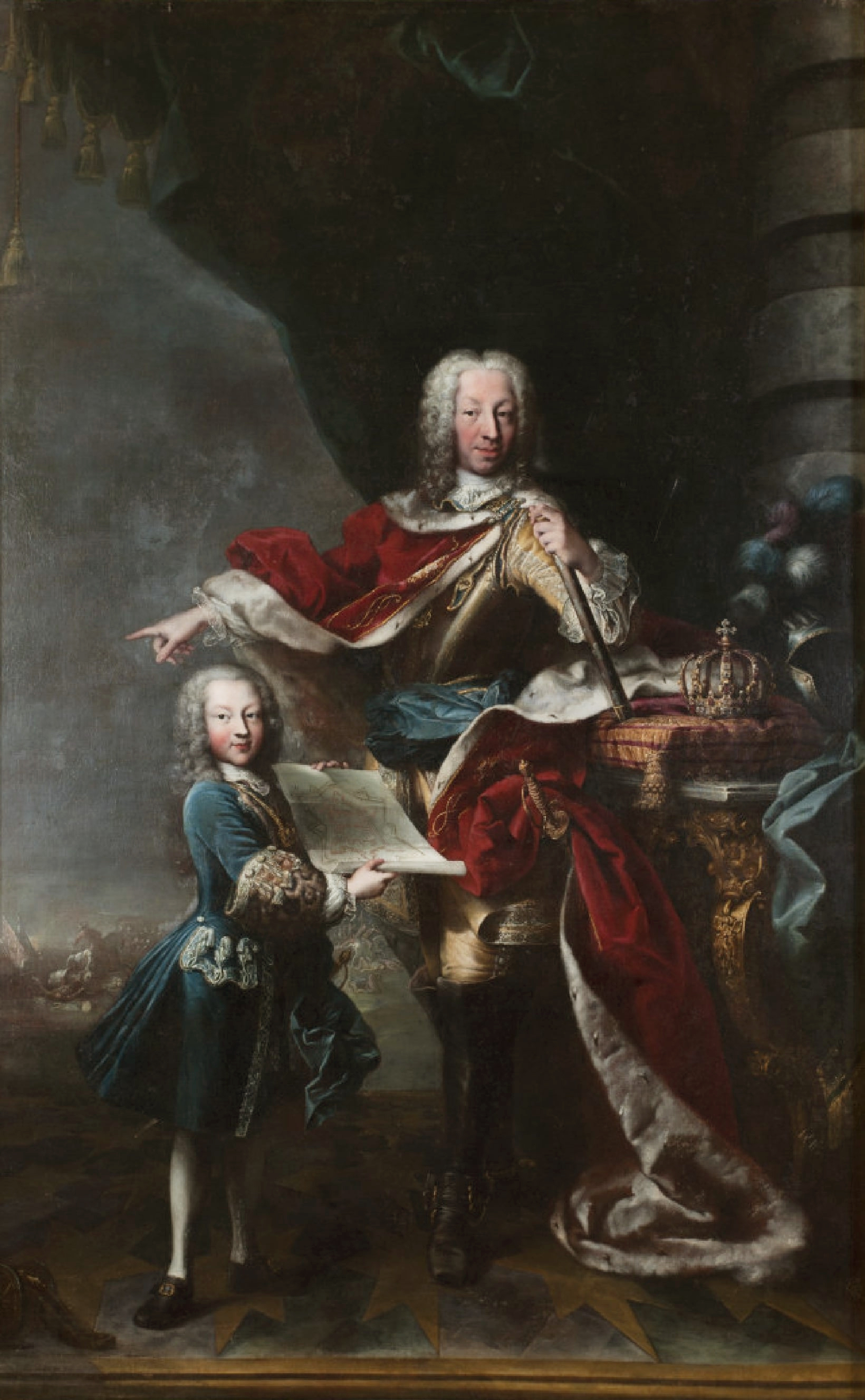 Portrait of Charles Emmanuel III of Sardinia with his son the future Victor Amadeus III